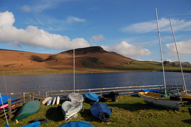 Embsay Reservoir View looking towards Embsay Crag